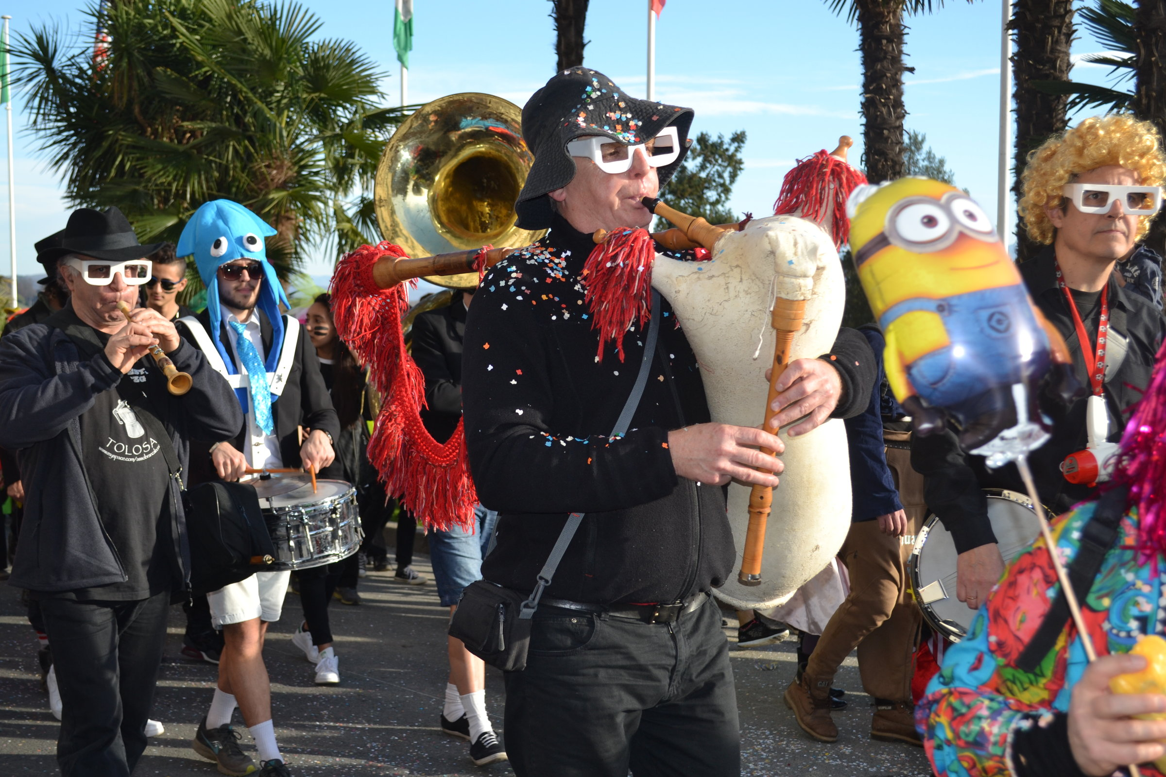 A bodega player during the Big Parade of the Carnaval Biarnés 2016.